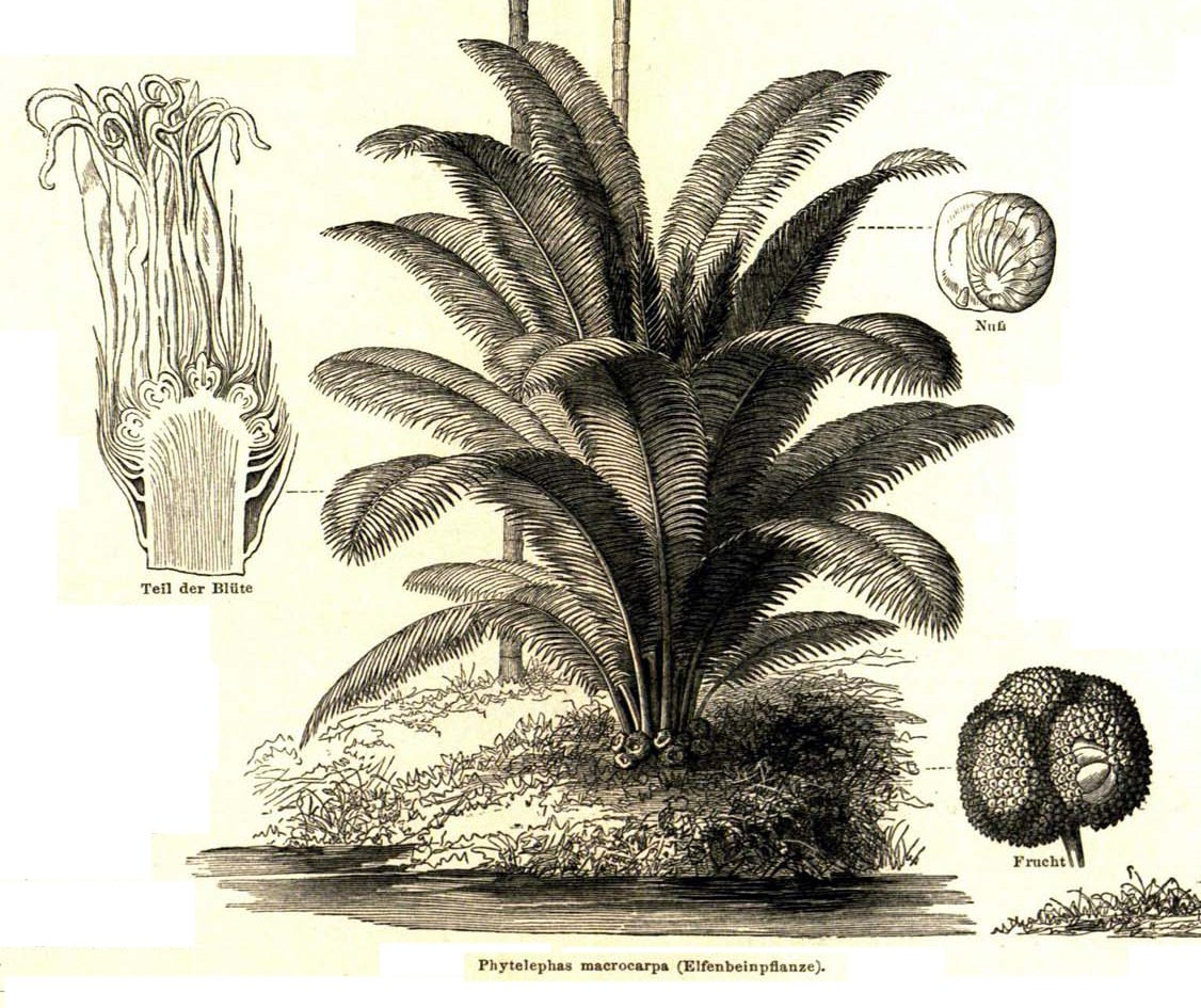 Phytelephas macrocarpa Table from Meyers Konversations-Lexikon, 1888 Derivative work from File:Industriepflanzen Meyer 1888.jpg